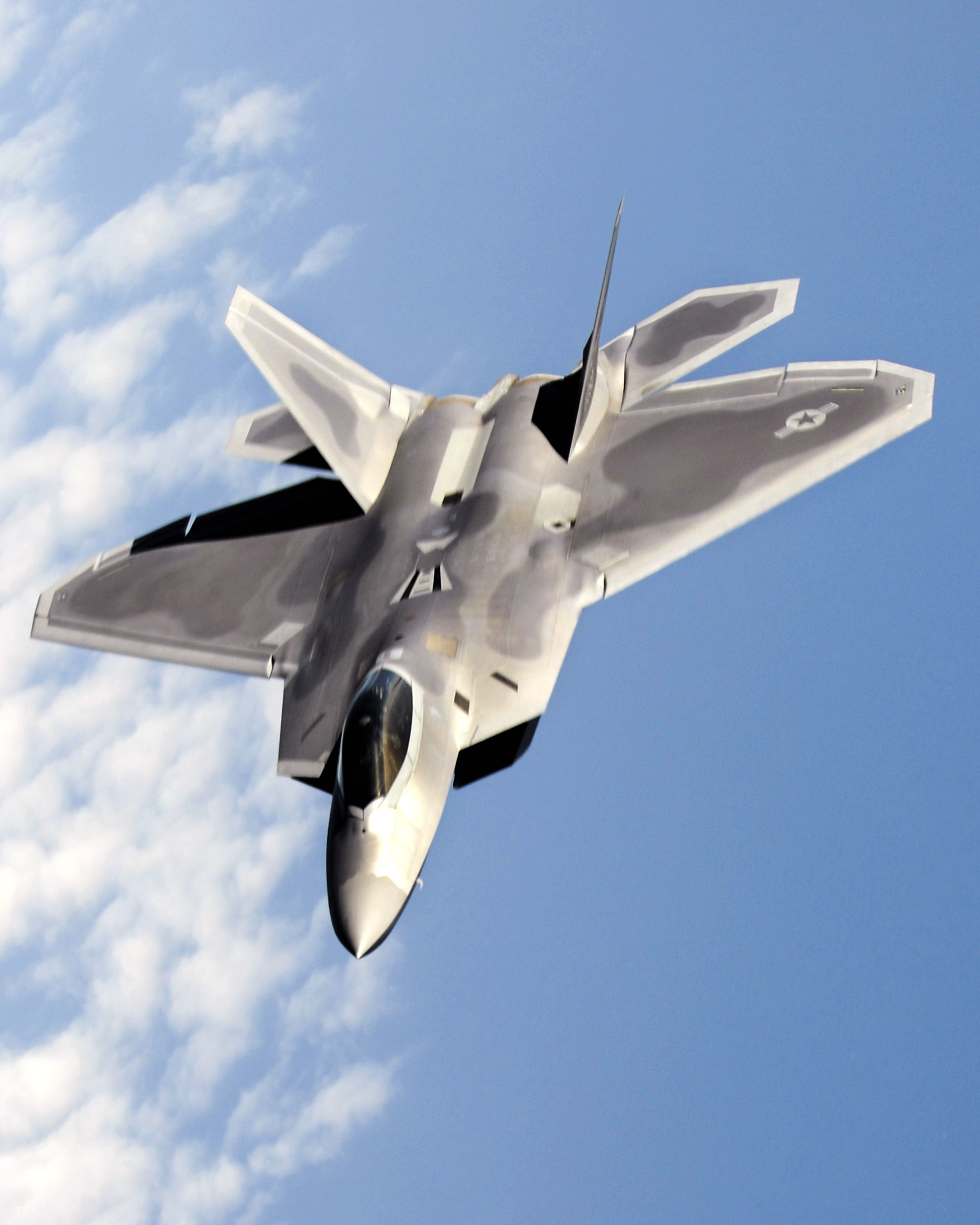 An F-22 Raptor flies above Kadena Air Base, Japan, during an air refueling mission Jan. 23. The F-22 is deployed from the 27th Fighter Squadron at Langley Air Force Base, Va., in support of U.S. Pacific Command.